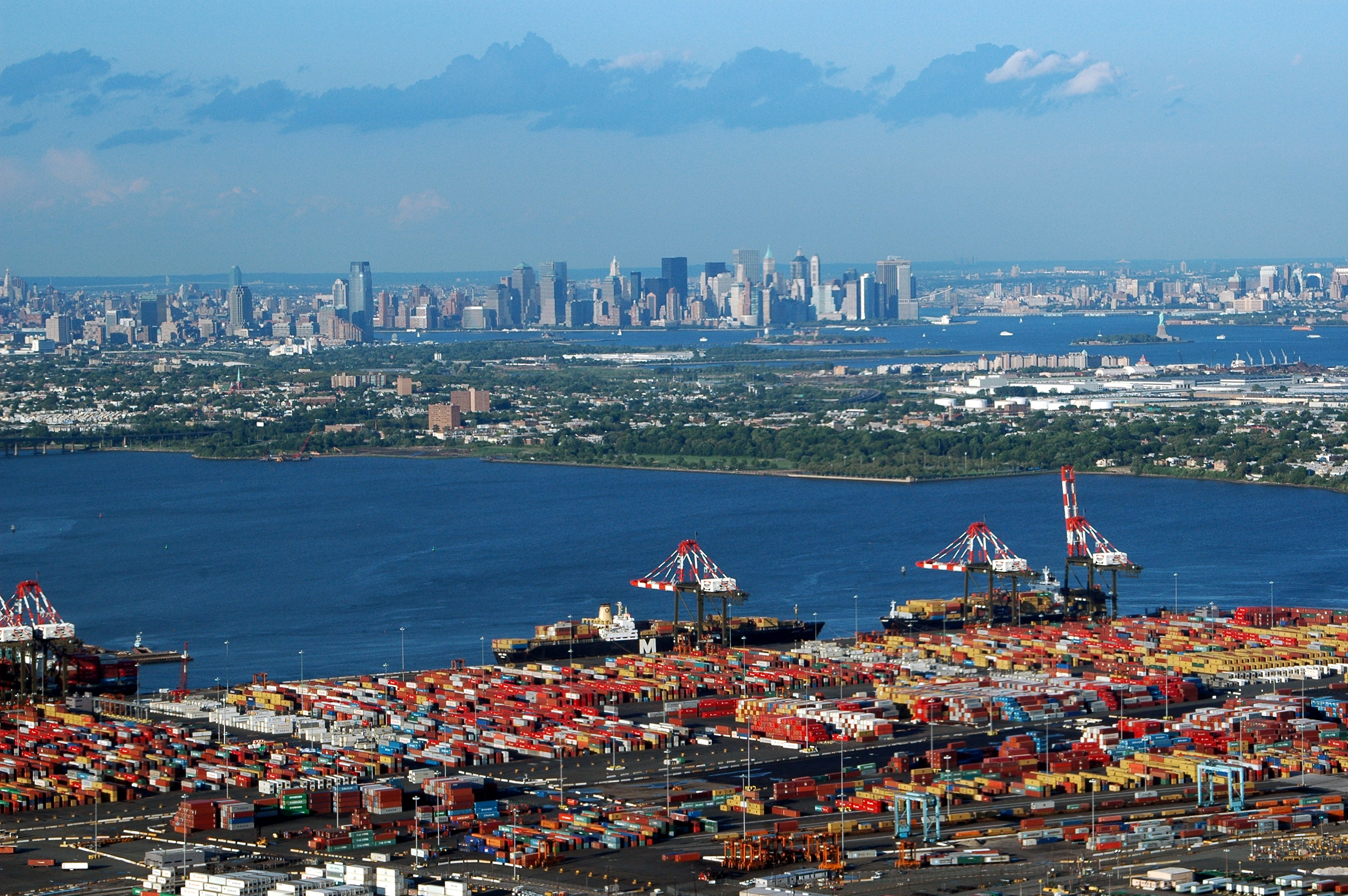 The island of Manhattan, Bayonne, Newark Bay, and areas of the New York / New Jersey Port seen from aboard a plane in July, 2005. See also Image:Manhattan.jpgManhattan